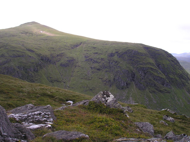 On top of Creag an Tulabhain looking to Meall Ghaordaidh